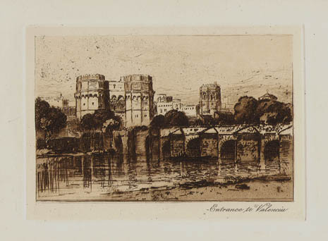 Entrance to Valencia. Etching, 4 1/4 X 6 1/8 inches